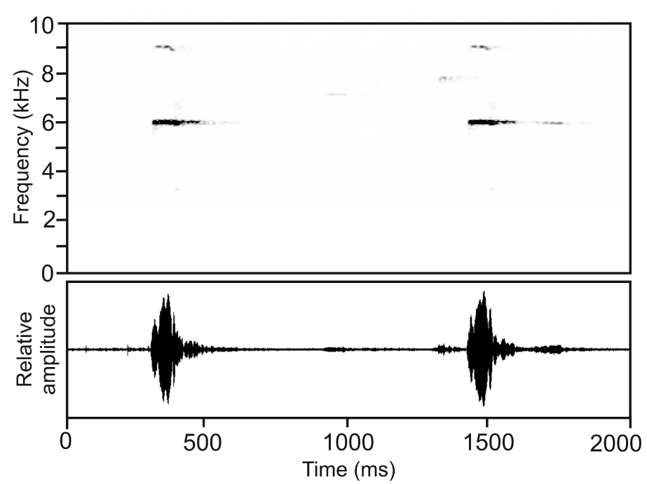 Spectrogram and waveform of a part of a call series of Anodonthyla theoi, recorded from paratype ZSM 2276/2007 at Manombo Special Reserve on 23 February 2007.